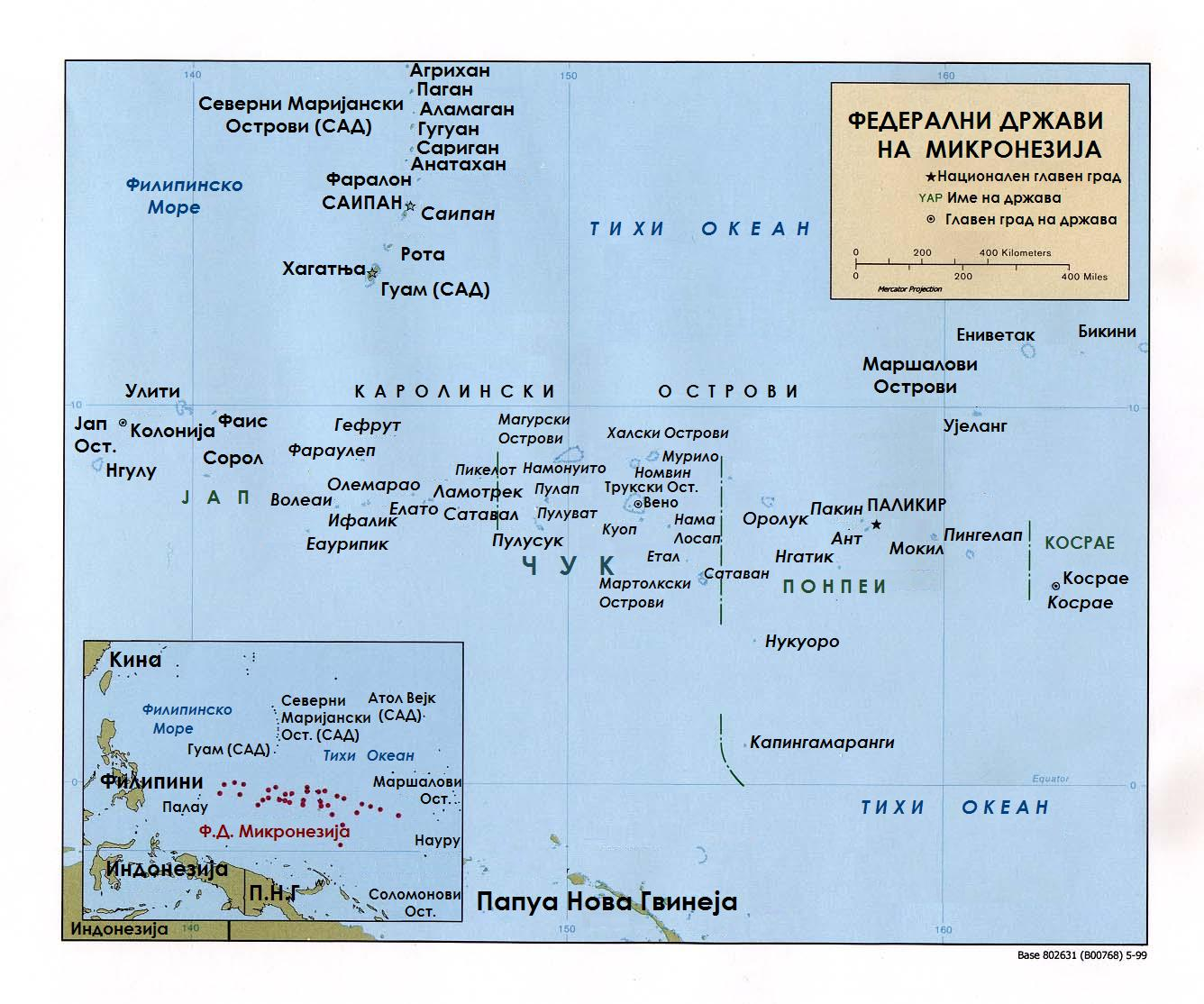 Map of the F.s. of Micronesia on Macedonian language.